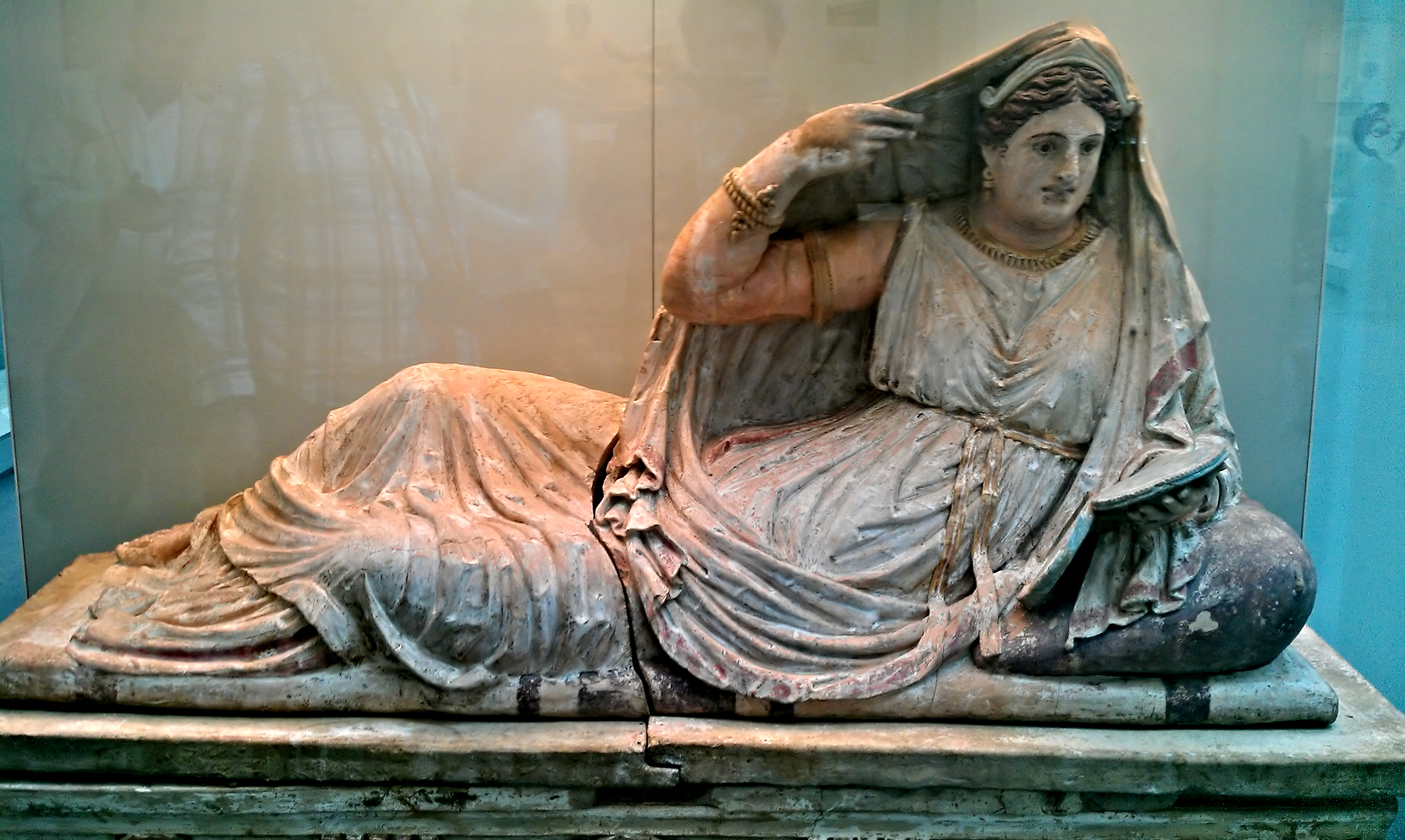 Europe,Italy,Tuscany,Poggio Cantarello, 150BC-140BC (circa) Painted terracotta sarcophagus of Seianti Hanunia Tlesnasa, her name inscribed on the chest. She reclines upon a mattress and pillow, holding an open lidded-mirror in her left hand and raising her right hand to adjust her mantle. She wears a chiton with high girdle, a bordered mantle, and jewellery comprising a diadem, ear-rings, necklace, bracelets and finger-rings.